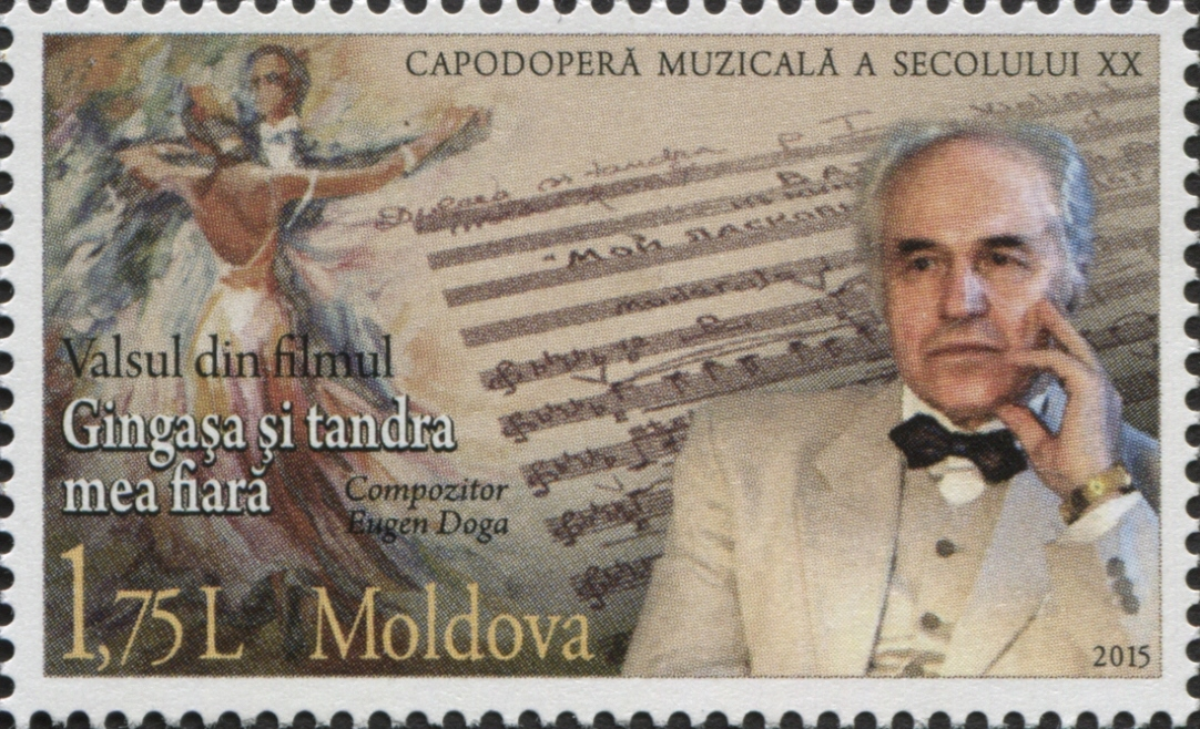 Stamps of Moldova, 2015